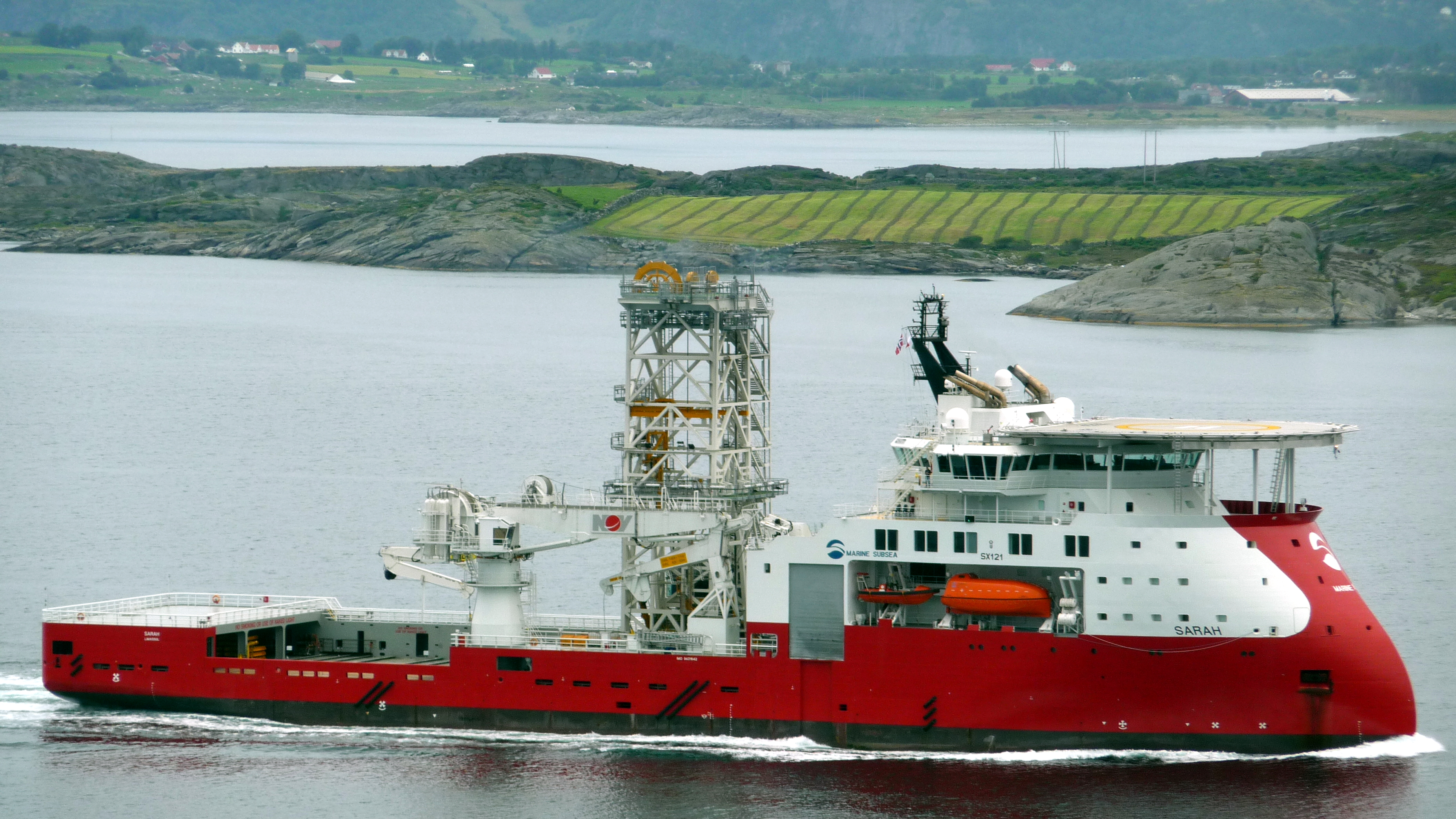 Well intervention vessel Sarah, designed and delivered by Ulstein Group. The vessel is currently owned by DOF Group and is renamed Skandi Constructor. IMO Number: 9431642 MMSI Number: 212842000 Callsign: 5BTW2 Length: 120 m Beam: 24 m